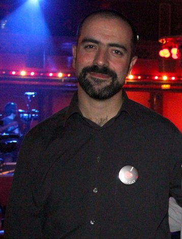 Xavier "Xavi" Vila i Espinosa, secretary general of the Pirates de Catalunya